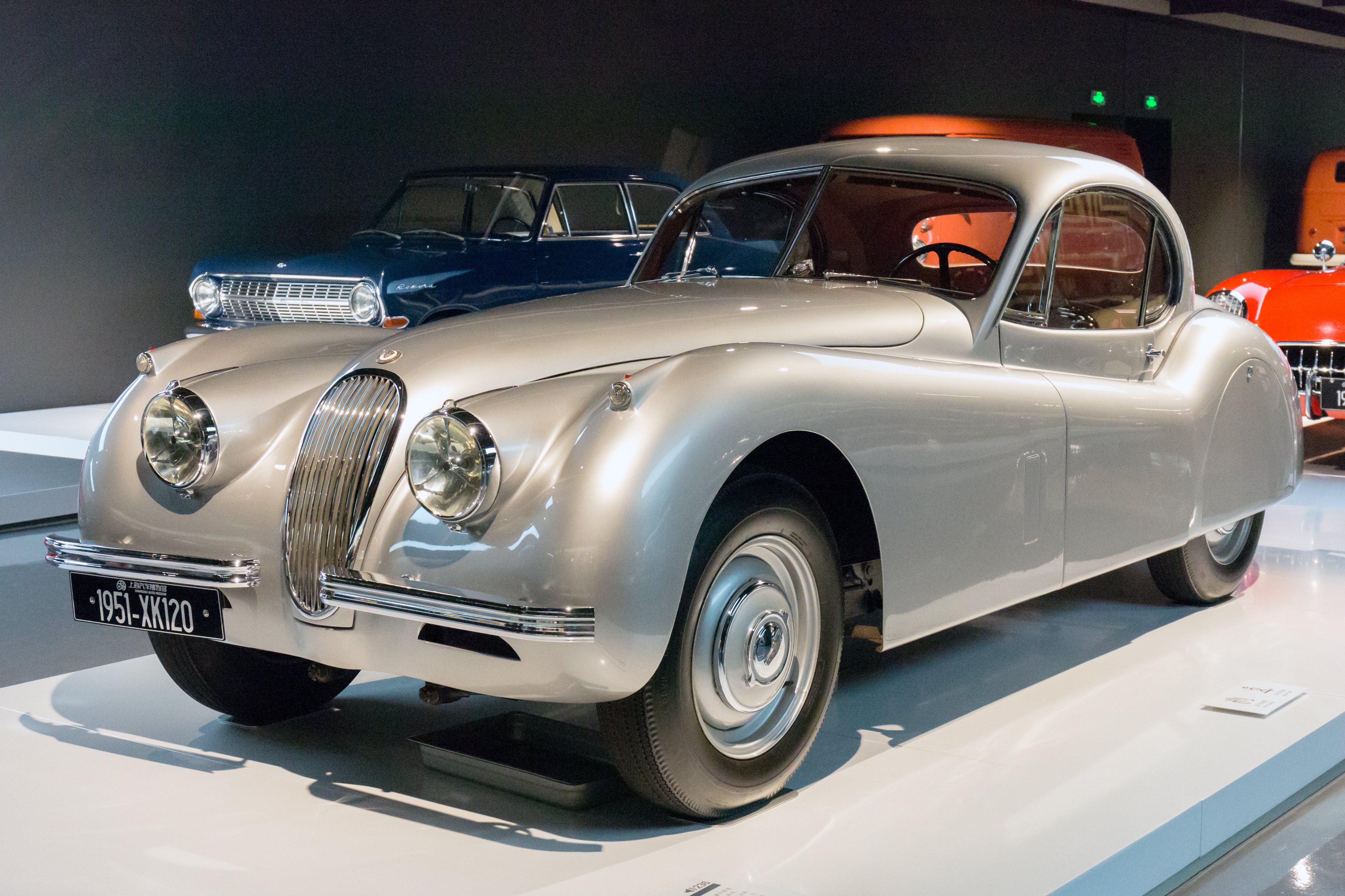 1951 Jaguar XK120